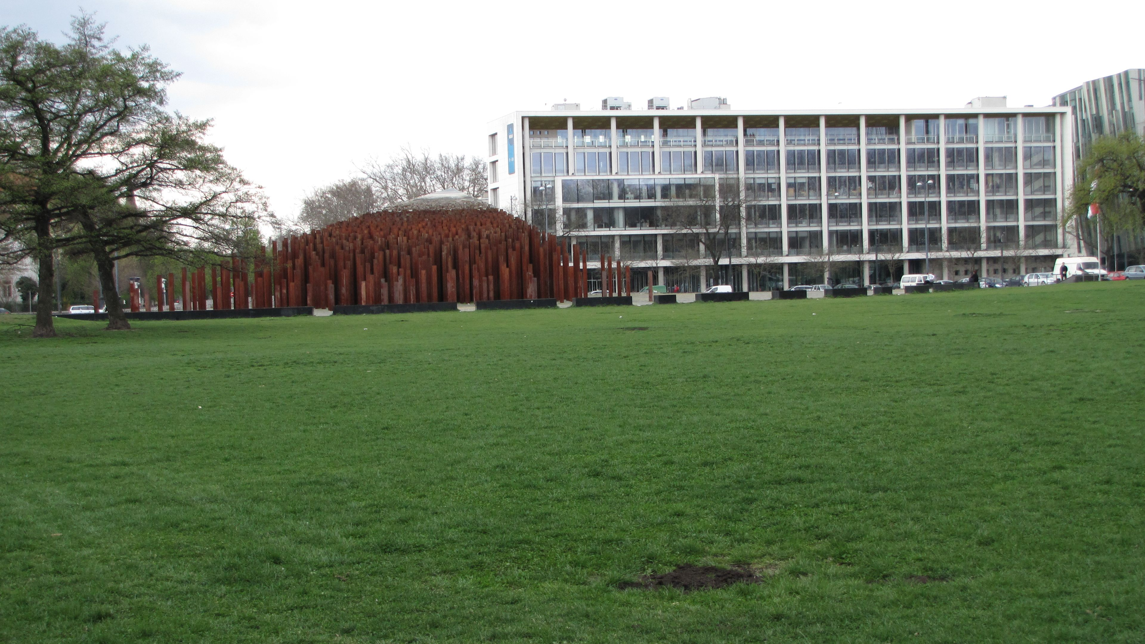 Memorial of the 1956 Revolution in Budapest, City Park.